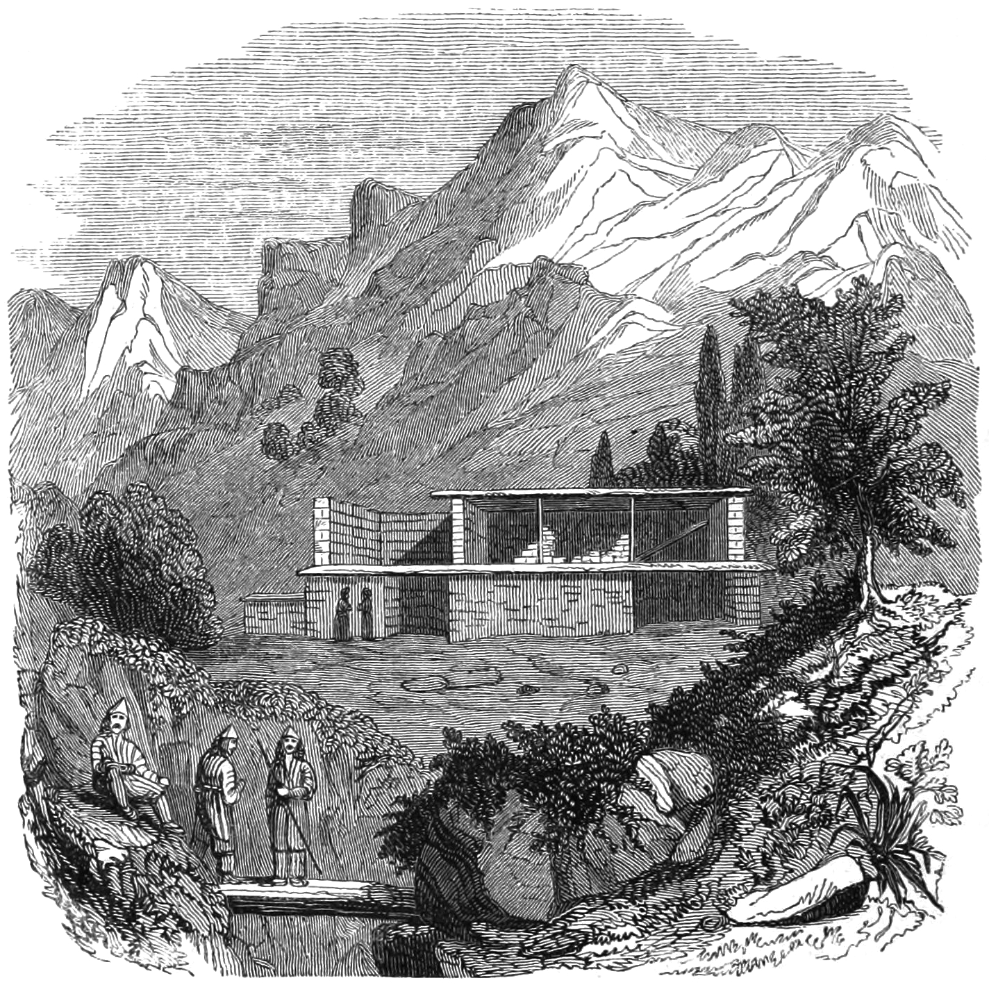 A Nestorian house in the Tyari, from The Nestorians and their Rituals (1852), vol. I, p. 216